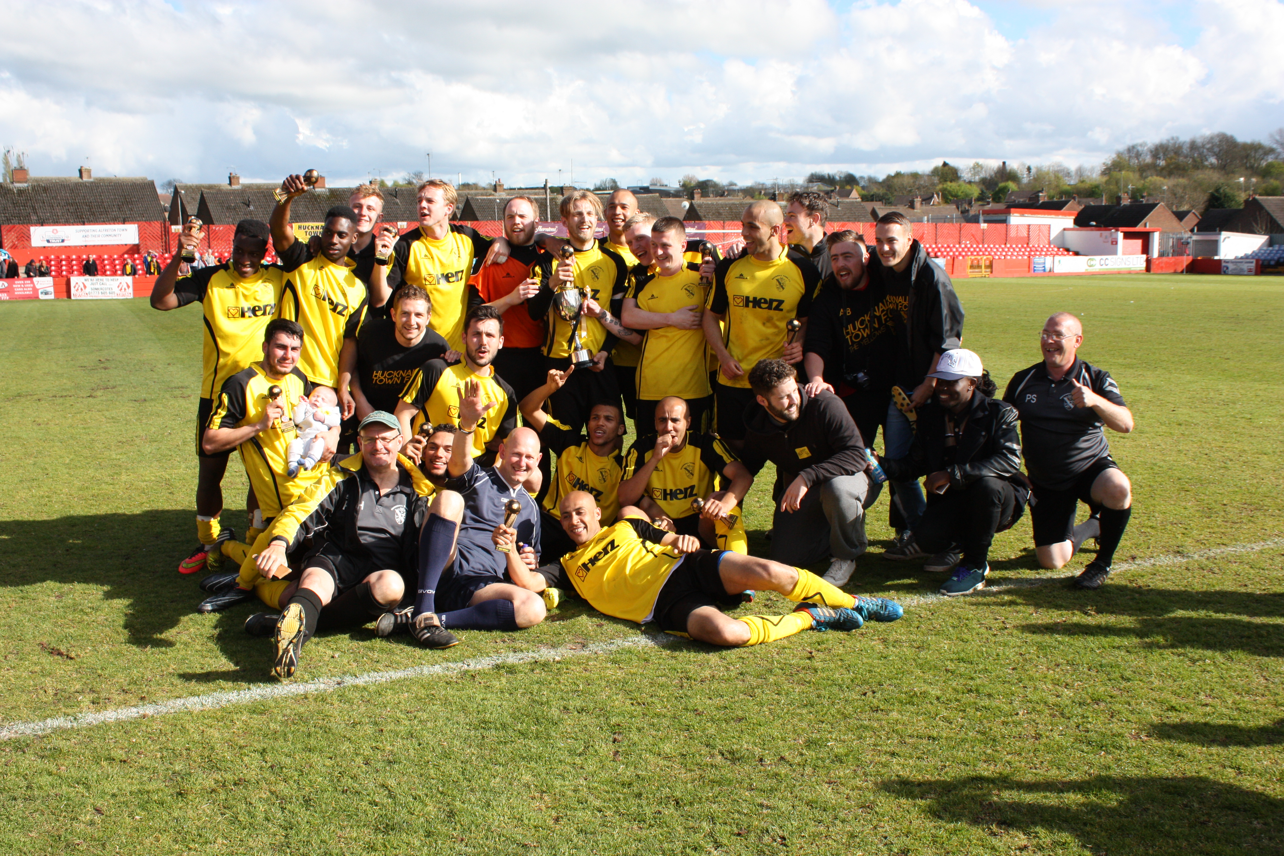 The Hucknall Town Squad with the League Cup (2015